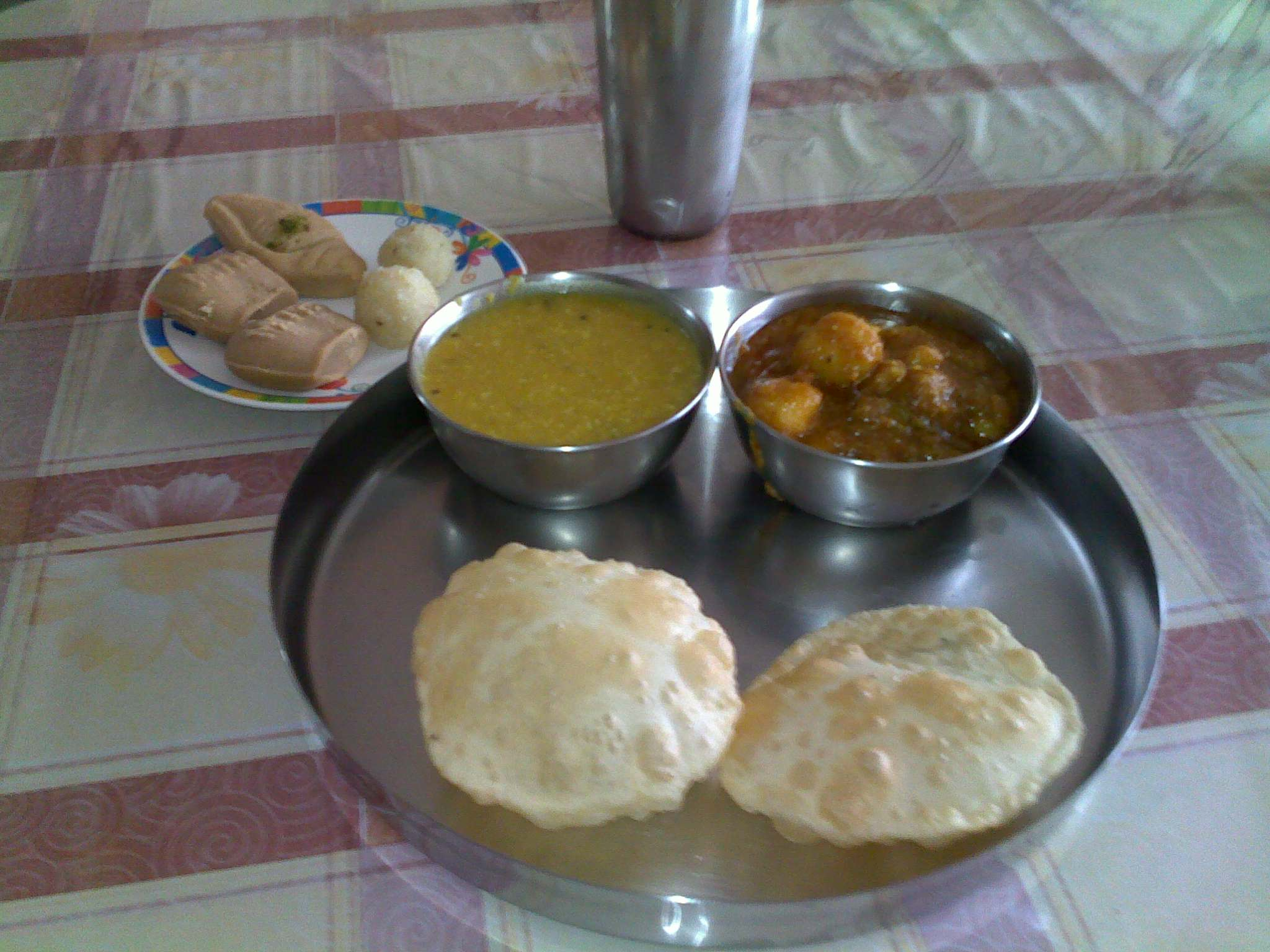 Traditional Bengali lunch comprising of luchis with alur dom, dal and sondesh.